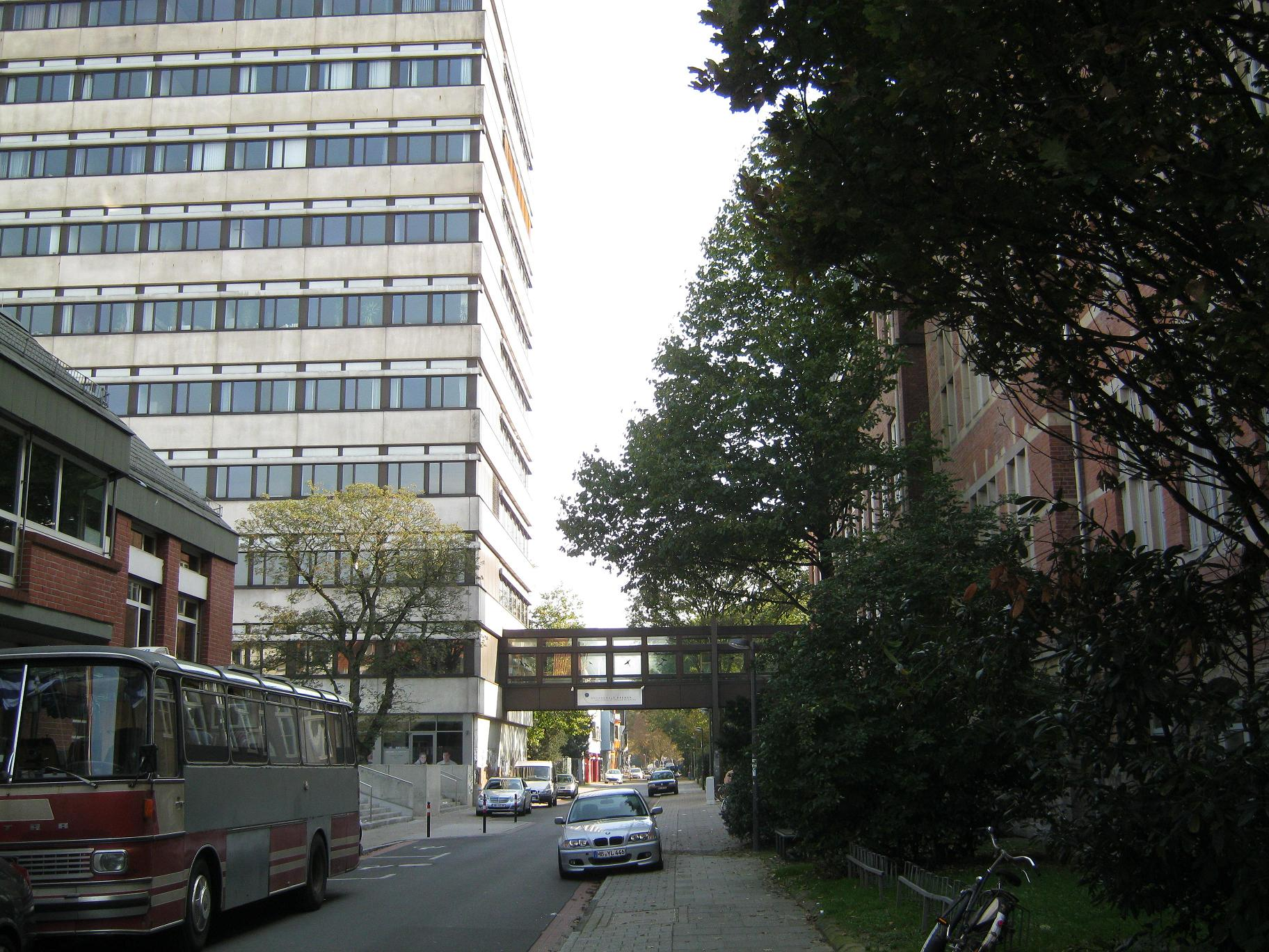 Hochschule Bremen - Facilities at Neustadtswall - Bremen, Germany.